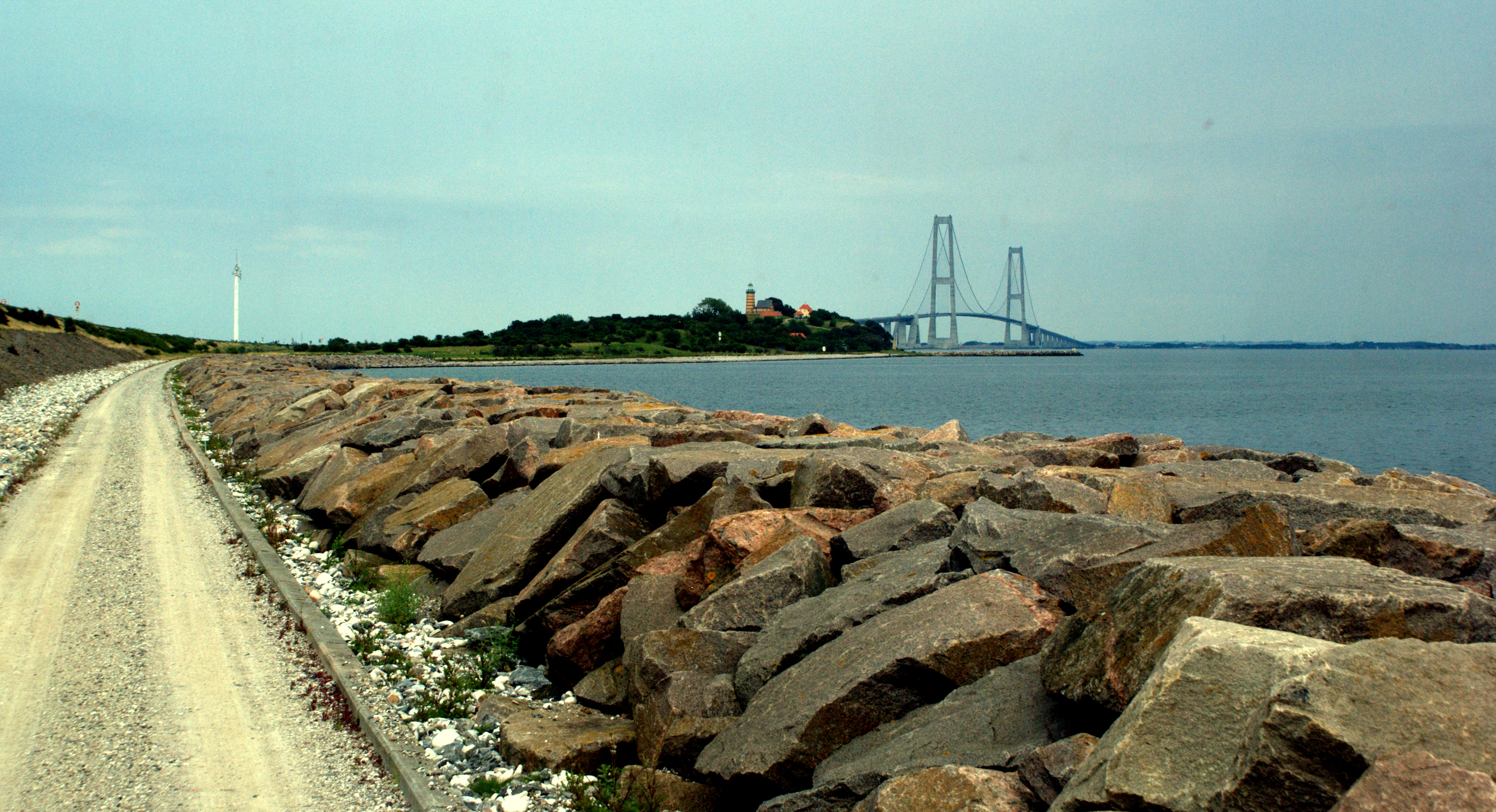 The greatbelt bridge.